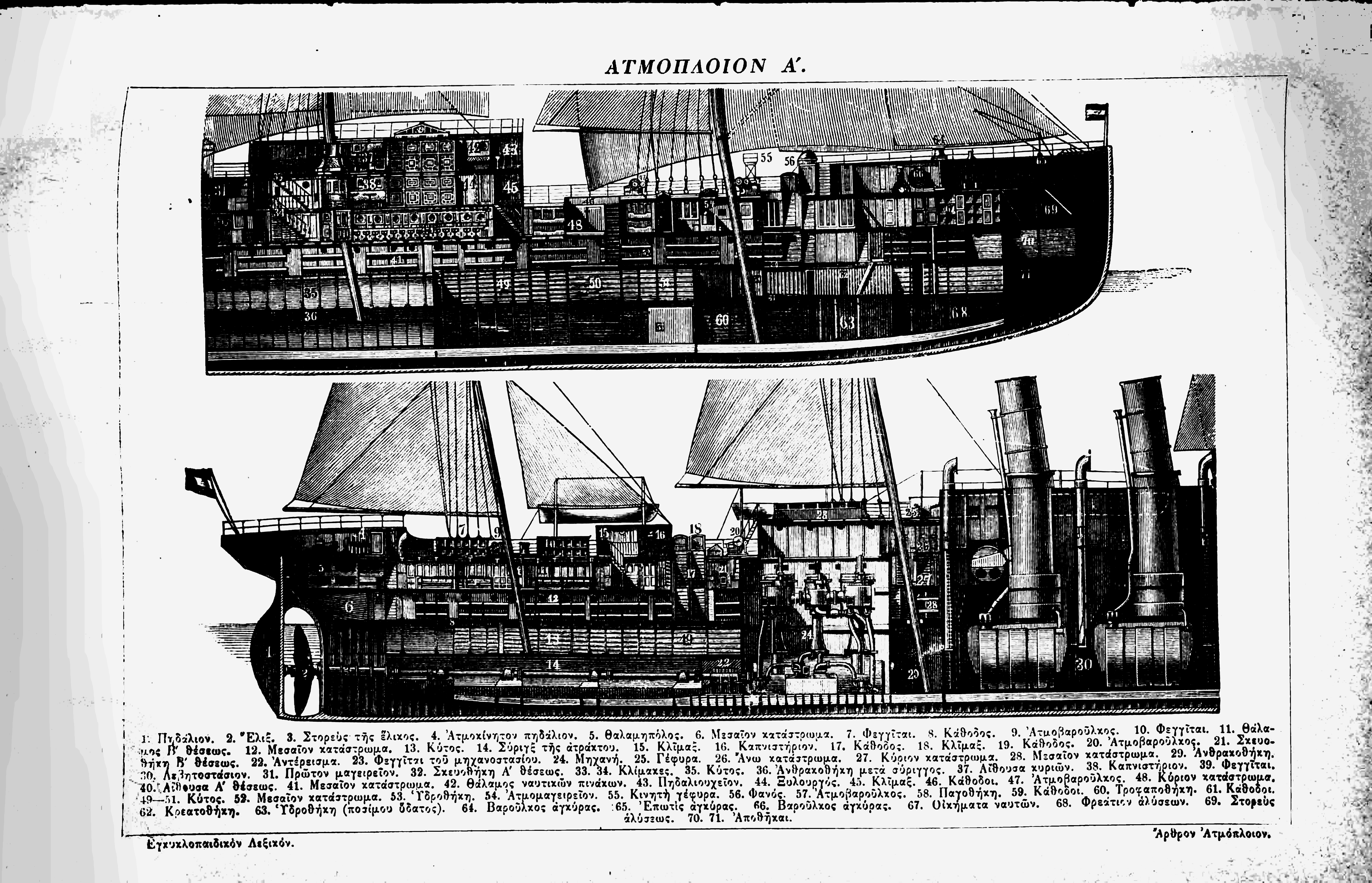 Steamship parts